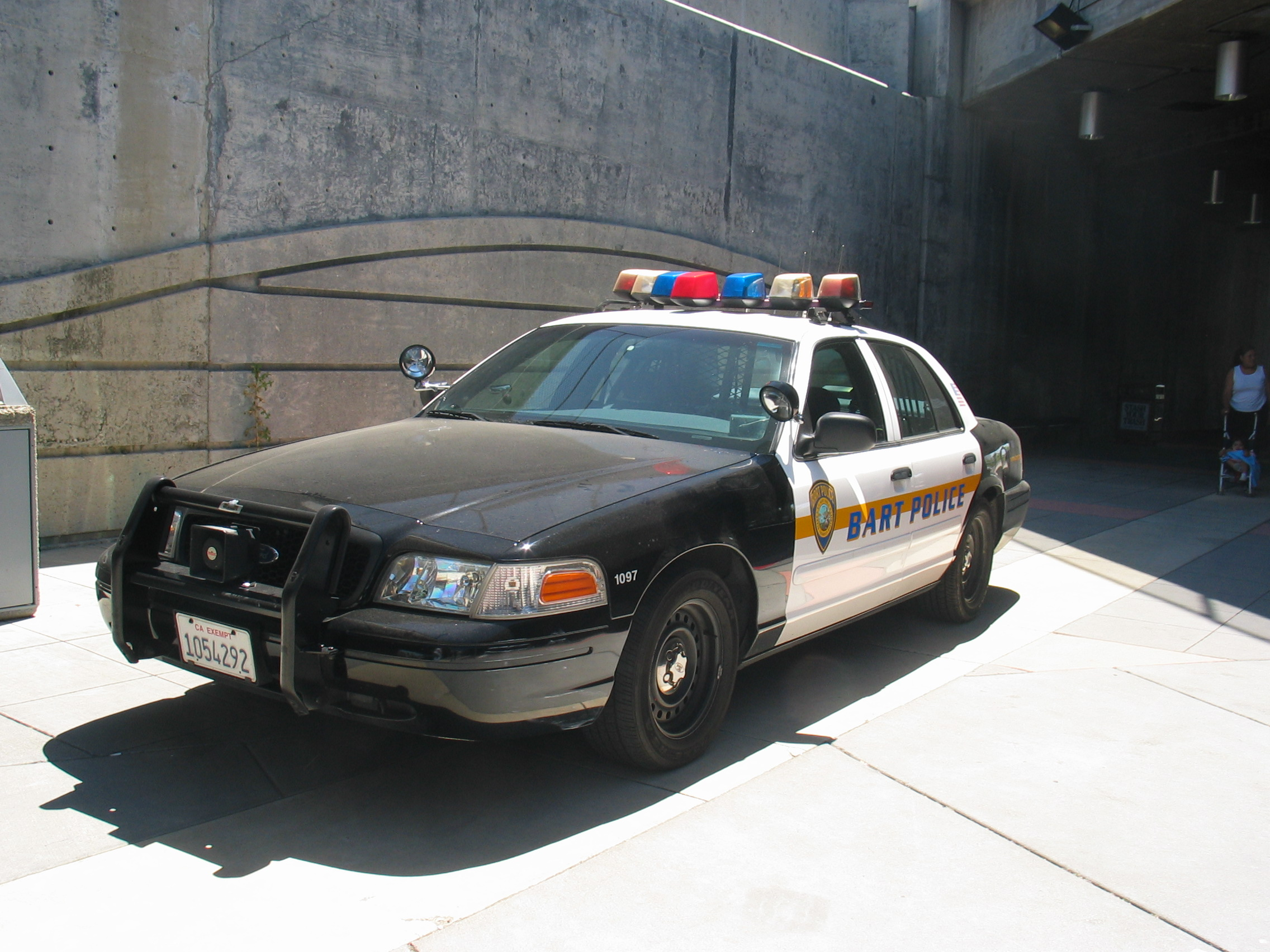 Bart Police car at Dublin/Pleasanton station